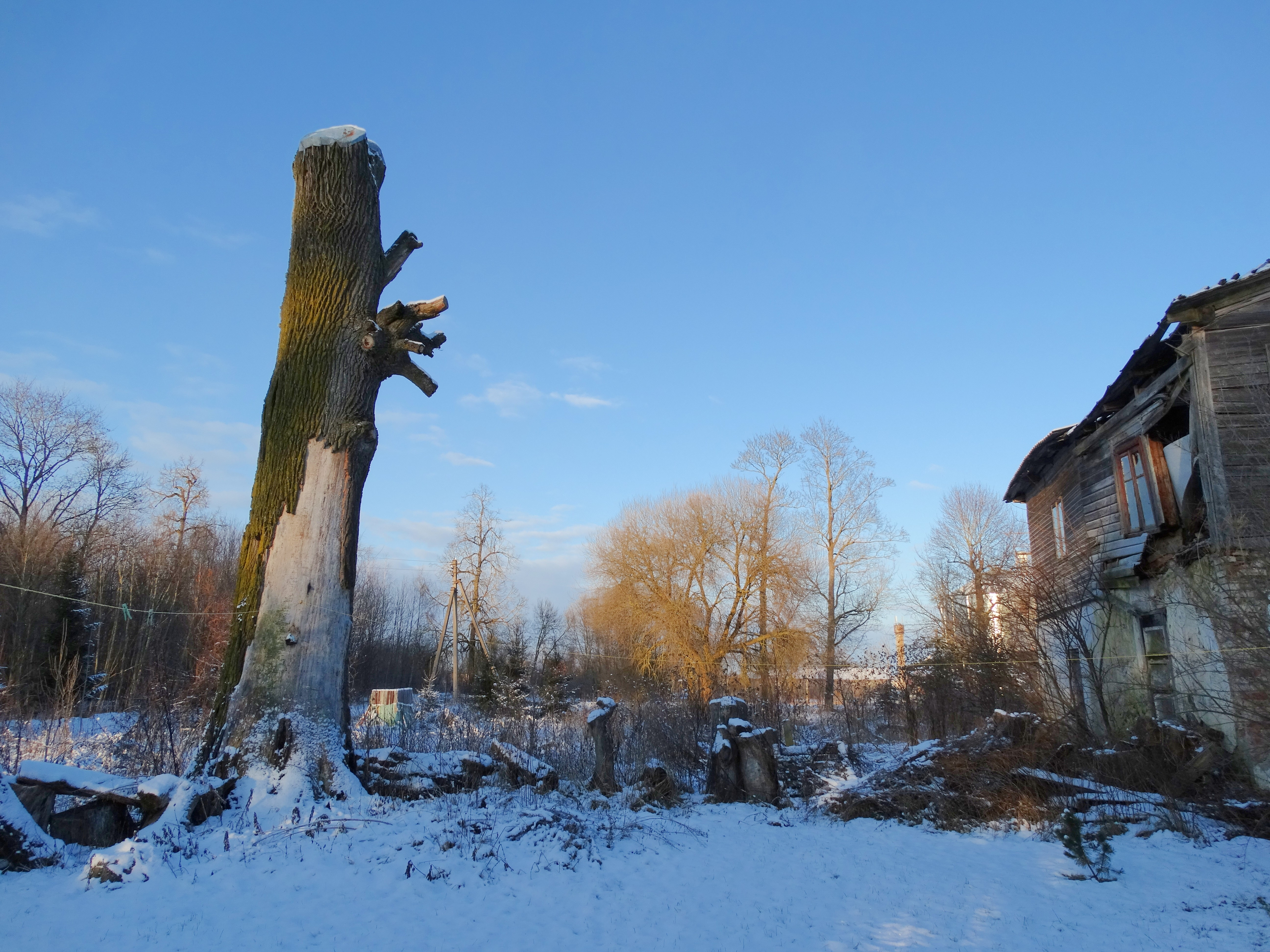 Klovainiai Oak, Pakruojis District, Lithuania